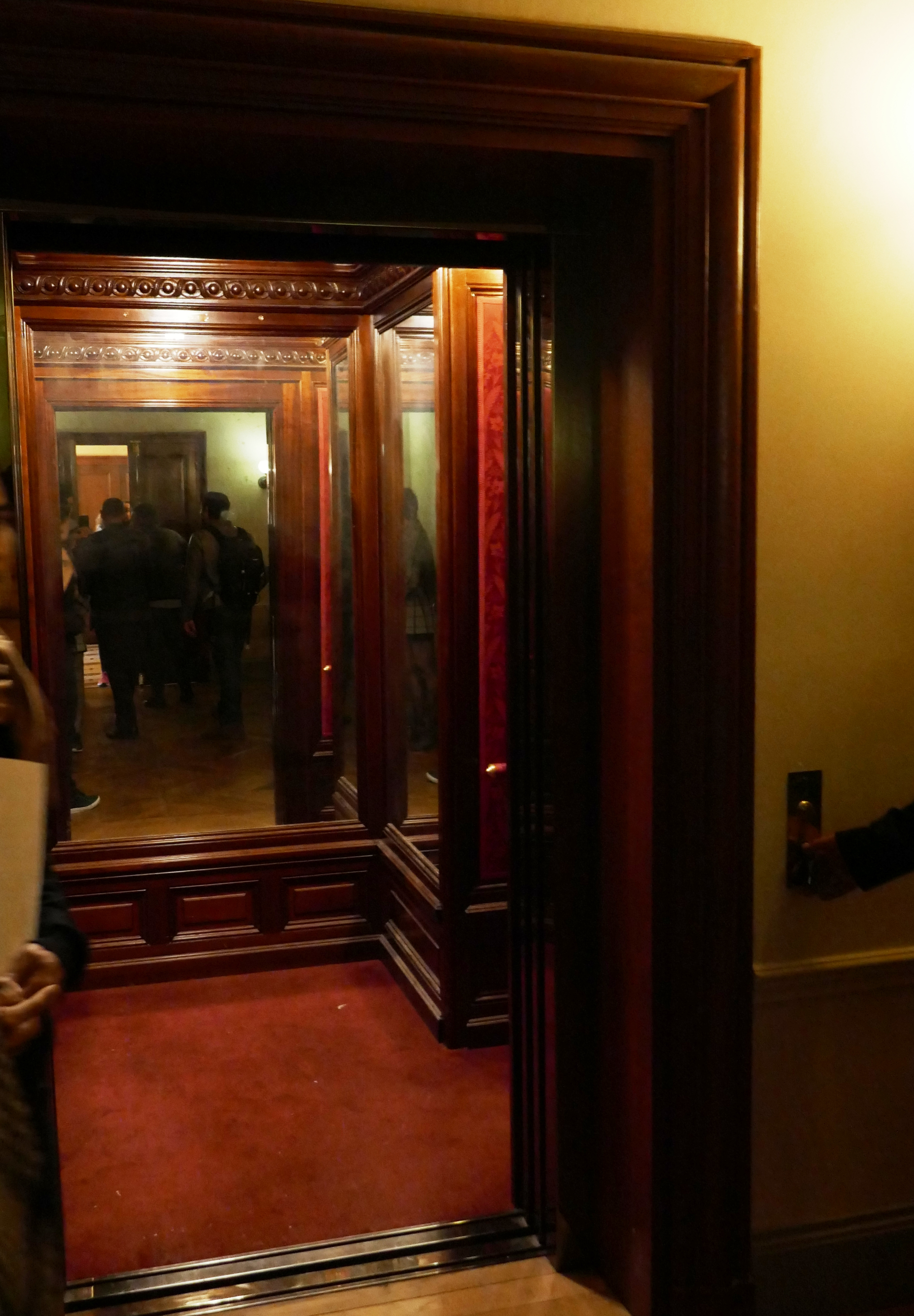 Opéra Garnier - Aga Khan Elevator